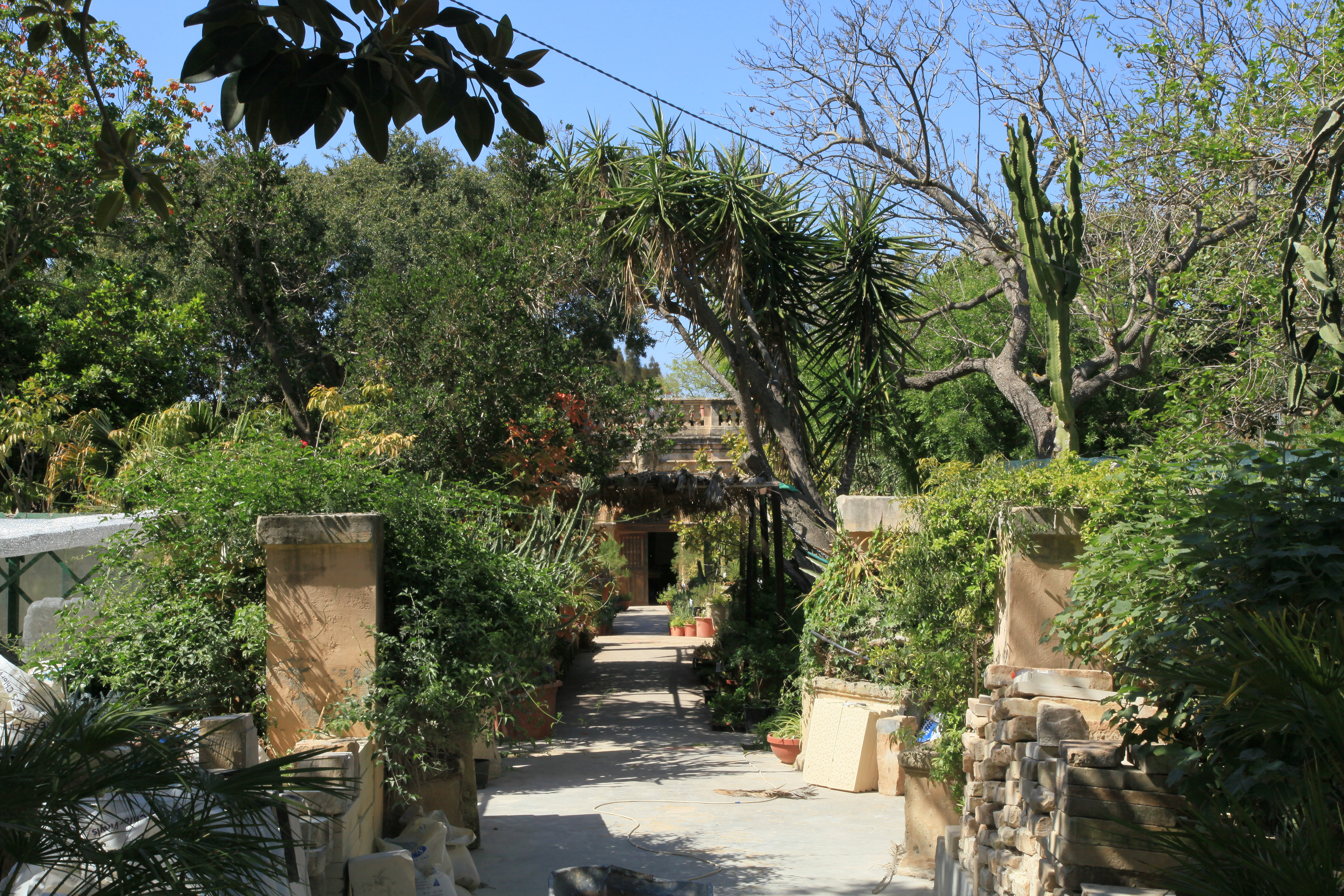 Argotti Botanic Gardens at Triq Vincenzo Bugeja in Floriana, Malta